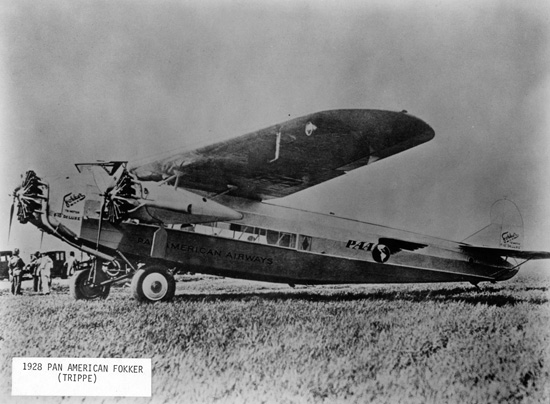 Pan American Airways Fokker F.10